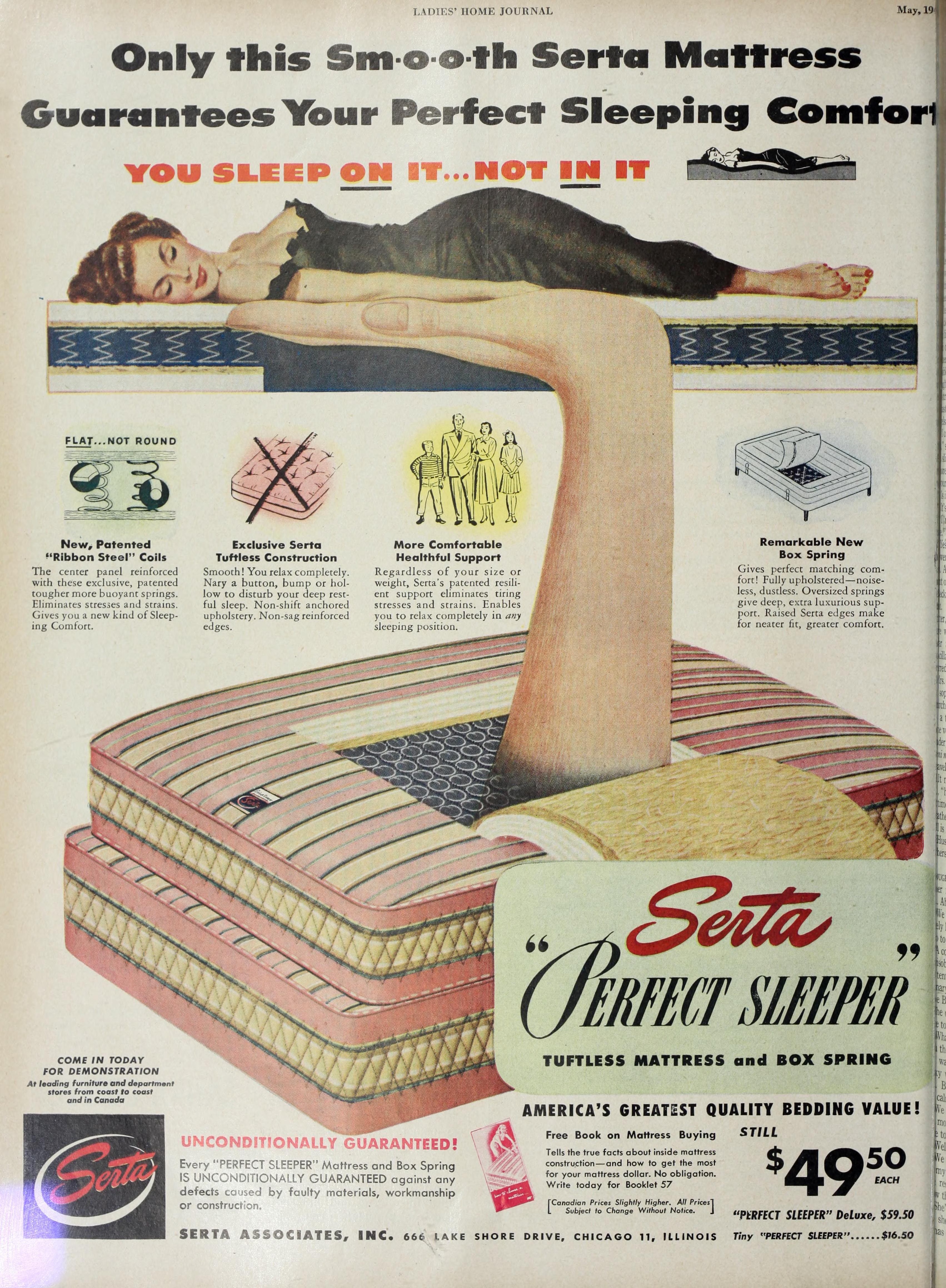 Serta "Perfect Sleeper", 1948 Title: The Ladies' home journal Year: 1889 (1880s) Authors: Wyeth, N. C. (Newell Convers), 1882-1945 Subjects: Women's periodicals Janice Bluestein Longone Culinary Archive Publisher: Philadelphia : (s.n.) Text Appearing Before Image: New, PatentedRibbon Steel Coils The center panel reinforcedwith these exclusive, patentedtougher more buoyant springs.Eliminates stresses and strains.Gives you a new kind of Sleep-ing Comfort. Exclusive SertaTuftless Construction Smooth! You relax completely.Nary a button, bump or hol-low to disturb your deep rest-ful sleep. Non-shift anchoredupholstery. Non-sag reinforcededges. More ComfortableHealthful Support Regardless of your size orweight, Senas patented resili-ent support eliminates tiringstresses and strains. Enablesyou to relax completely in anysleeping position. Text Appearing After Image: Remarkable NewBox Spring Gives perfect matching com-fort! Fully upholstered—noise-less, dustless. Oversized springsgive deep, extra luxurious sup-port. Raised Serta edges makefor neater fit, greater comfort.